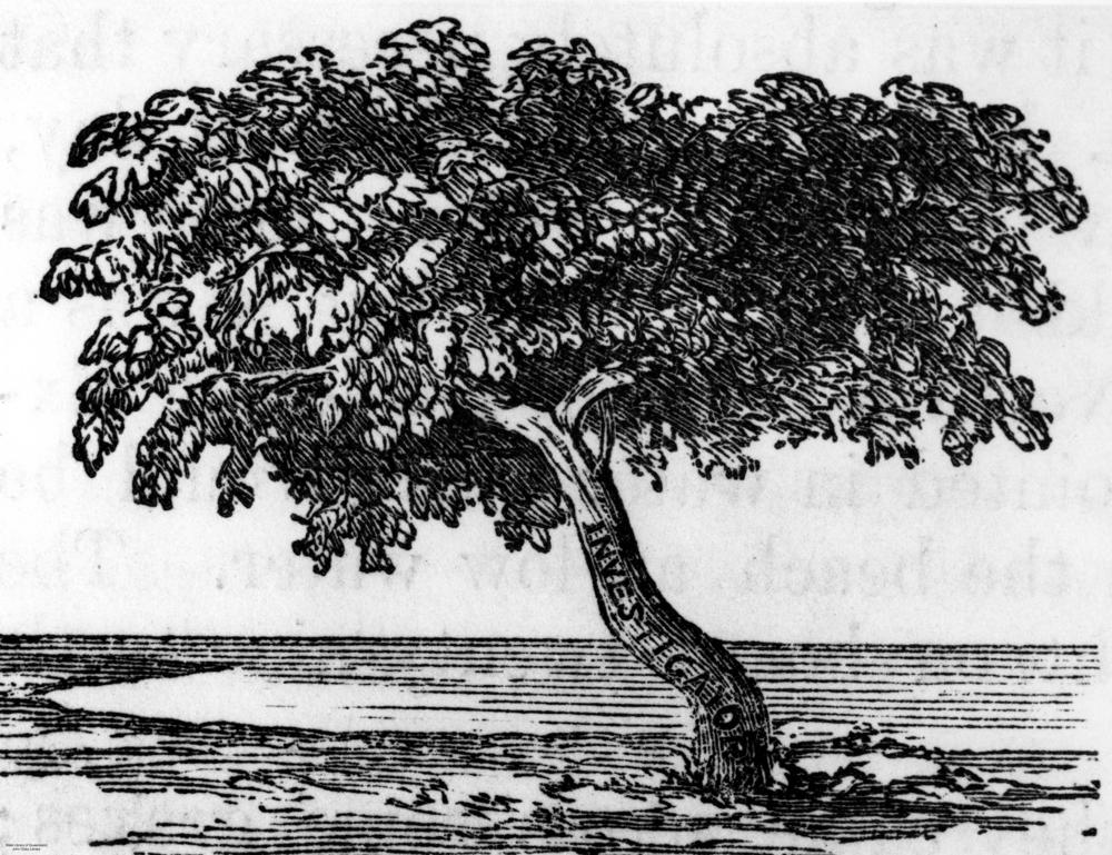 Drawing of the 'Investigator' tree on Sweers Island, 1857The 'Investigator' tree was so named because Matthew Flinders carved his ship's name along the trunk of this tree in 1802.